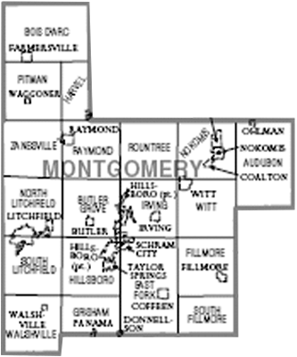 Township map of Montgomery County, Illinois